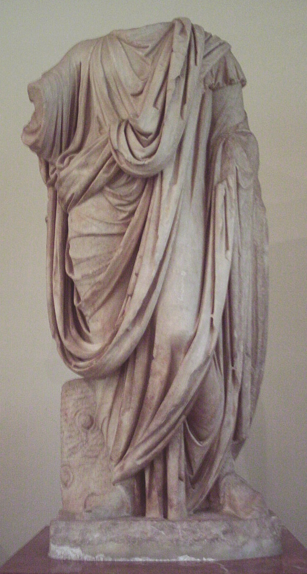 Roman statue of a man clad in toga. It represents a notable figure included at the decorative program of the Marble Forum in Emerita Augusta (present-day Mérida, Badajoz, Spain), that imitated the iconographic model of the Forum Augusti in Rome.